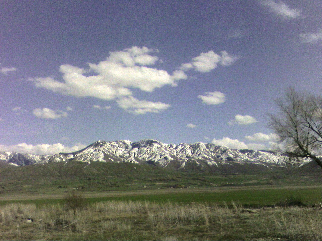 Wasatch Mountains at Utah State Line in May 2008.View easterly, overlooking Cache Valley. This stretch of the northern Wasatch, called the Bear River Mountains, (the Bear River Range).